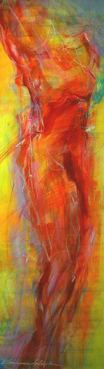 Act painting by Antoni Karwowski.